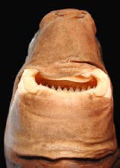 Head of a cookiecutter shark (Isistius brasiliensis)